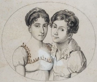 Portrait of Italian opera singers Ester Mombelli (left} and Anna Mombelli (right) which appeared on a sonnet dedicated to them by their admirers. They were the daughters of Domenico Mombelli